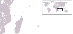 Location of Rodrigues Island (Mauritius) in the Indian Ocean